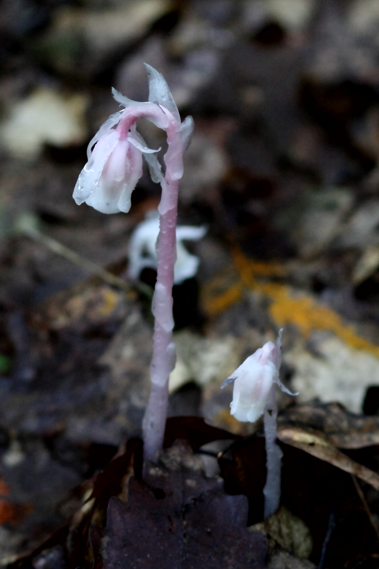 Monotropa uniflora with reddish color rather than the typical white, growing in Penwood State Park in Connecticut